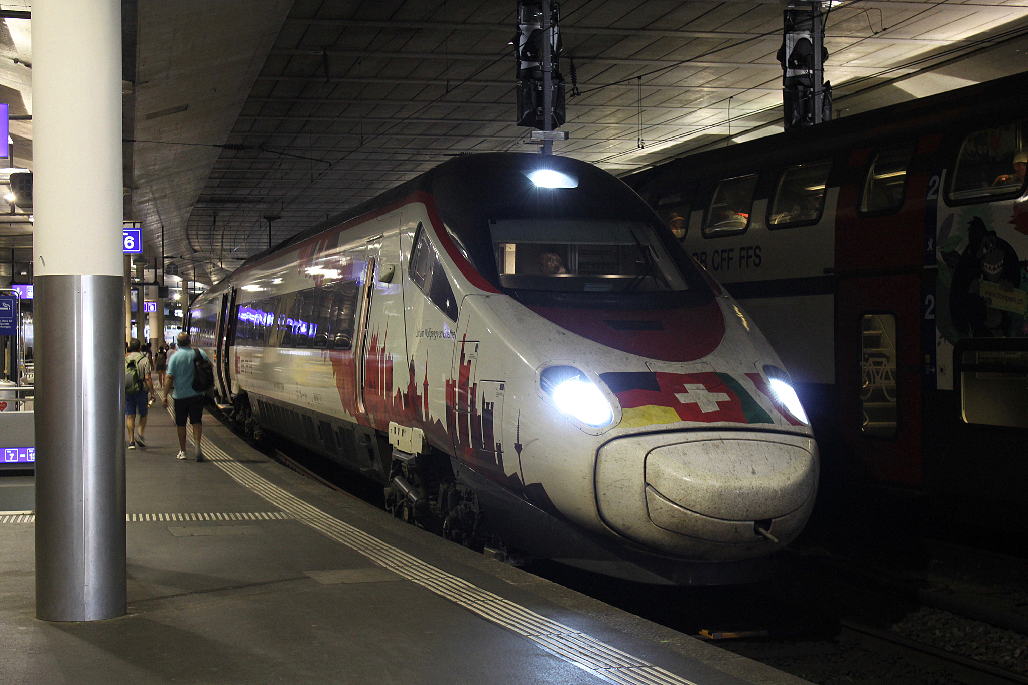 SBB CFF FFS RABe 503 022 at Bern railway station as EuroCity 59 from Basel SBB to Milano C.le.